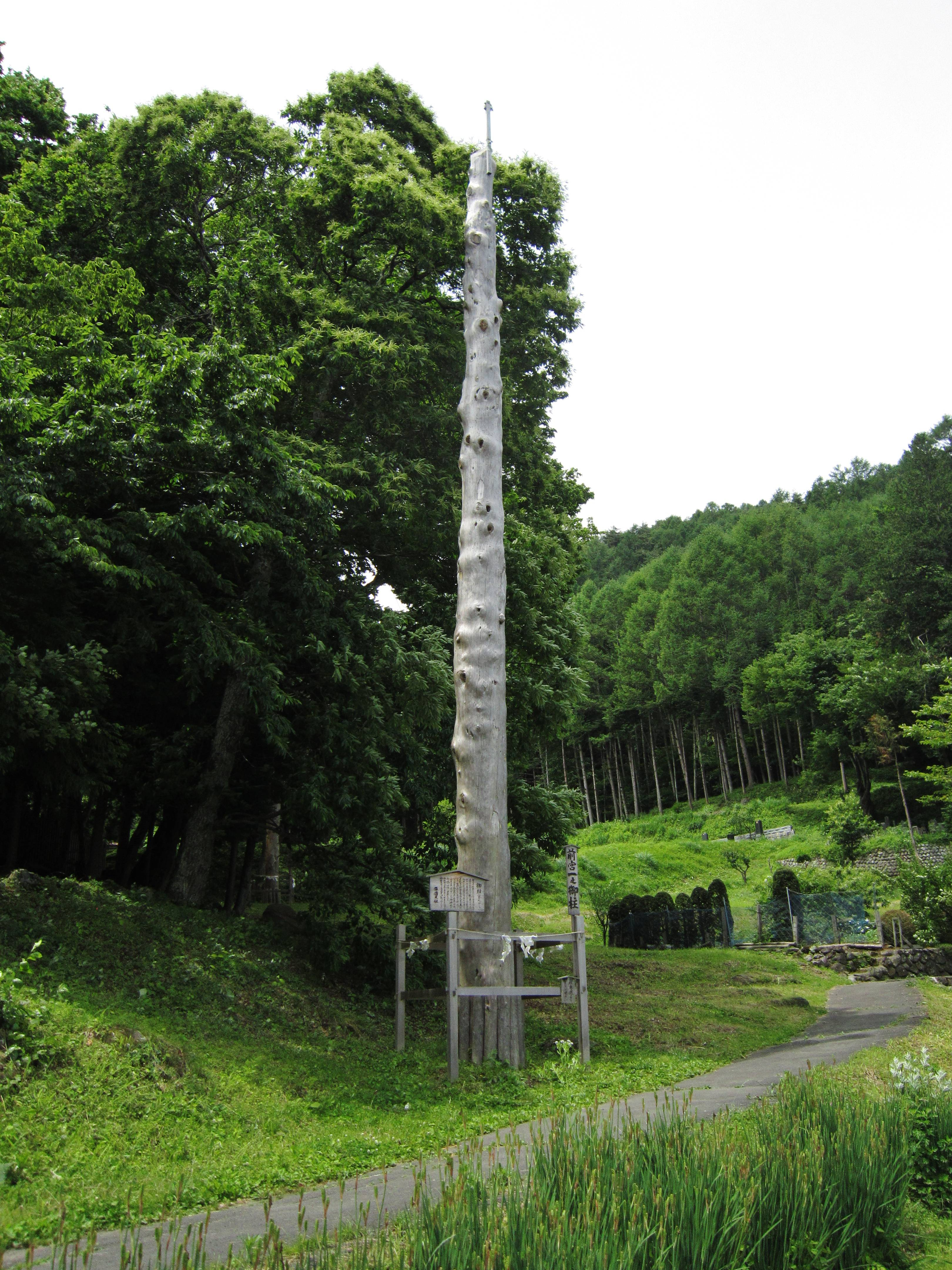 Suwa Taisha Maemiya Onbashira.